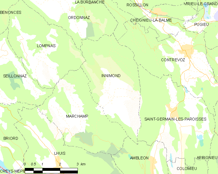 Map of French commune: Innimond Map commune FR insee code 01190.png